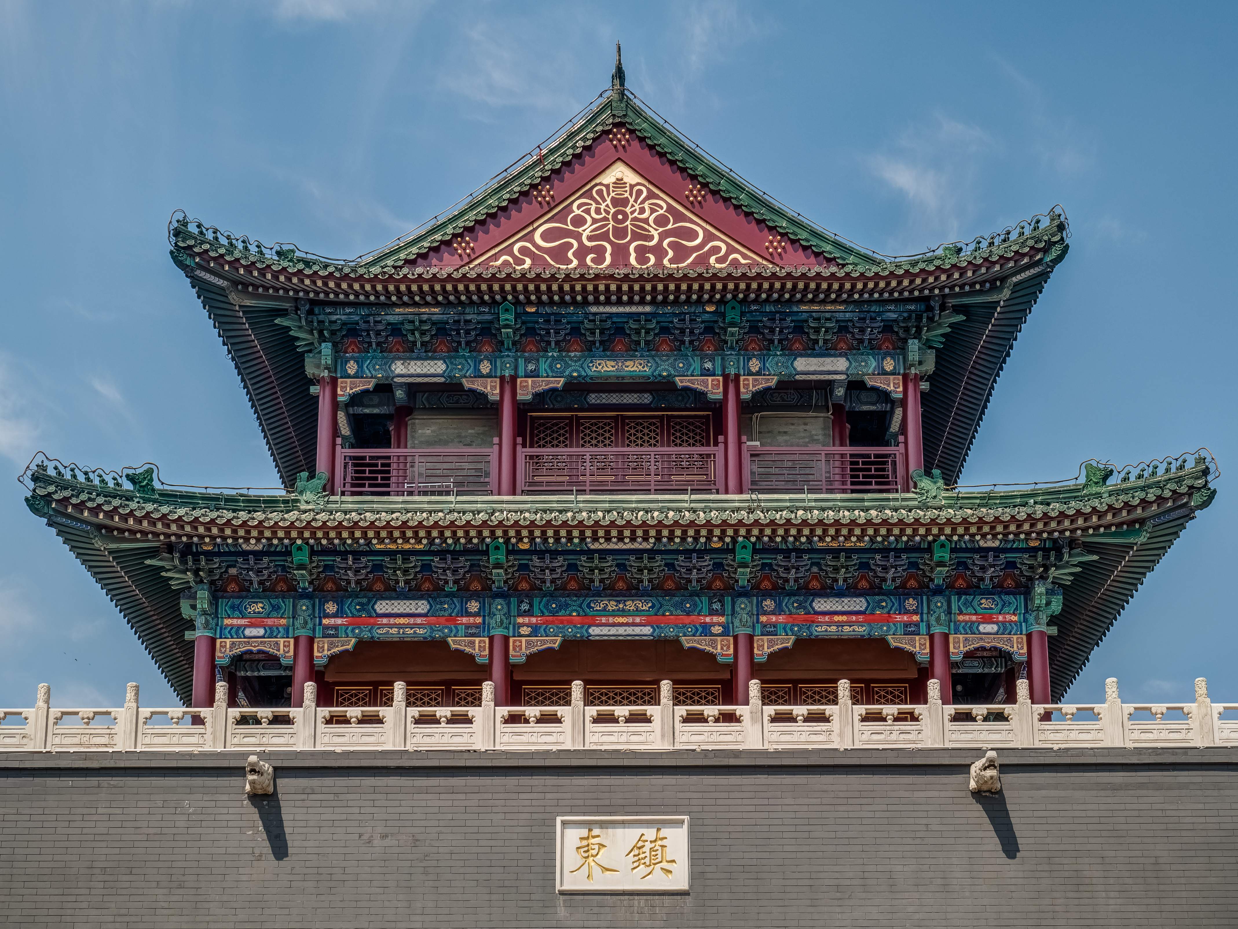 Drum Tower in the old city of Tianjin